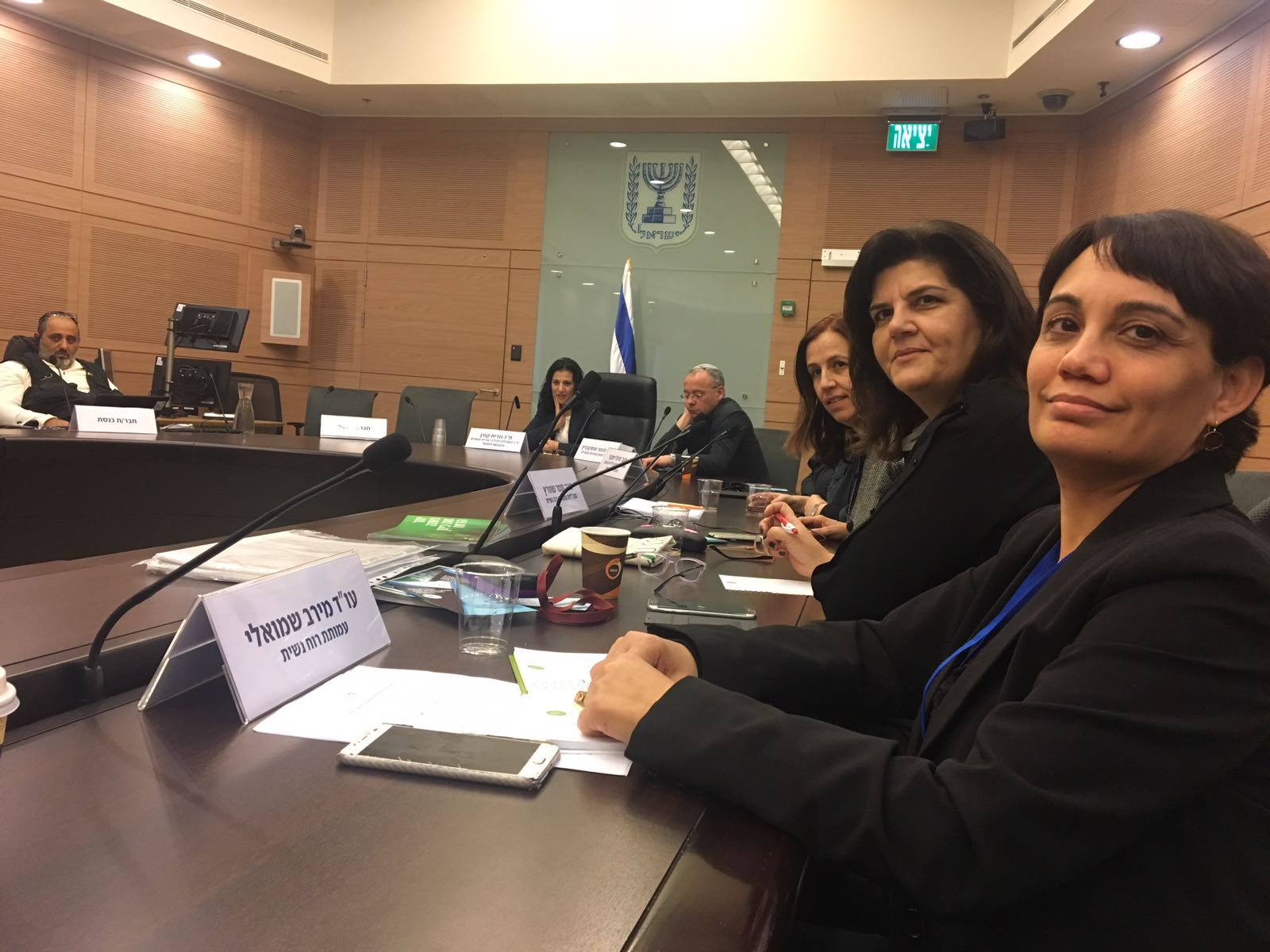 ruach-nashit